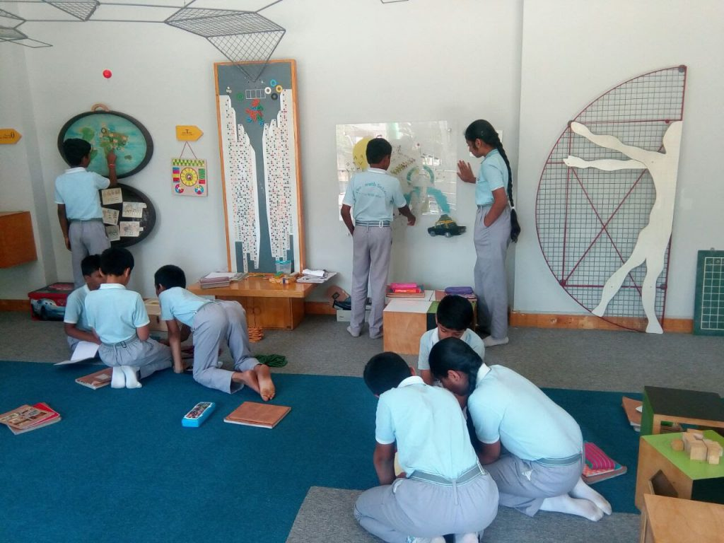 Activity-based learning in progress in one of the learning centres